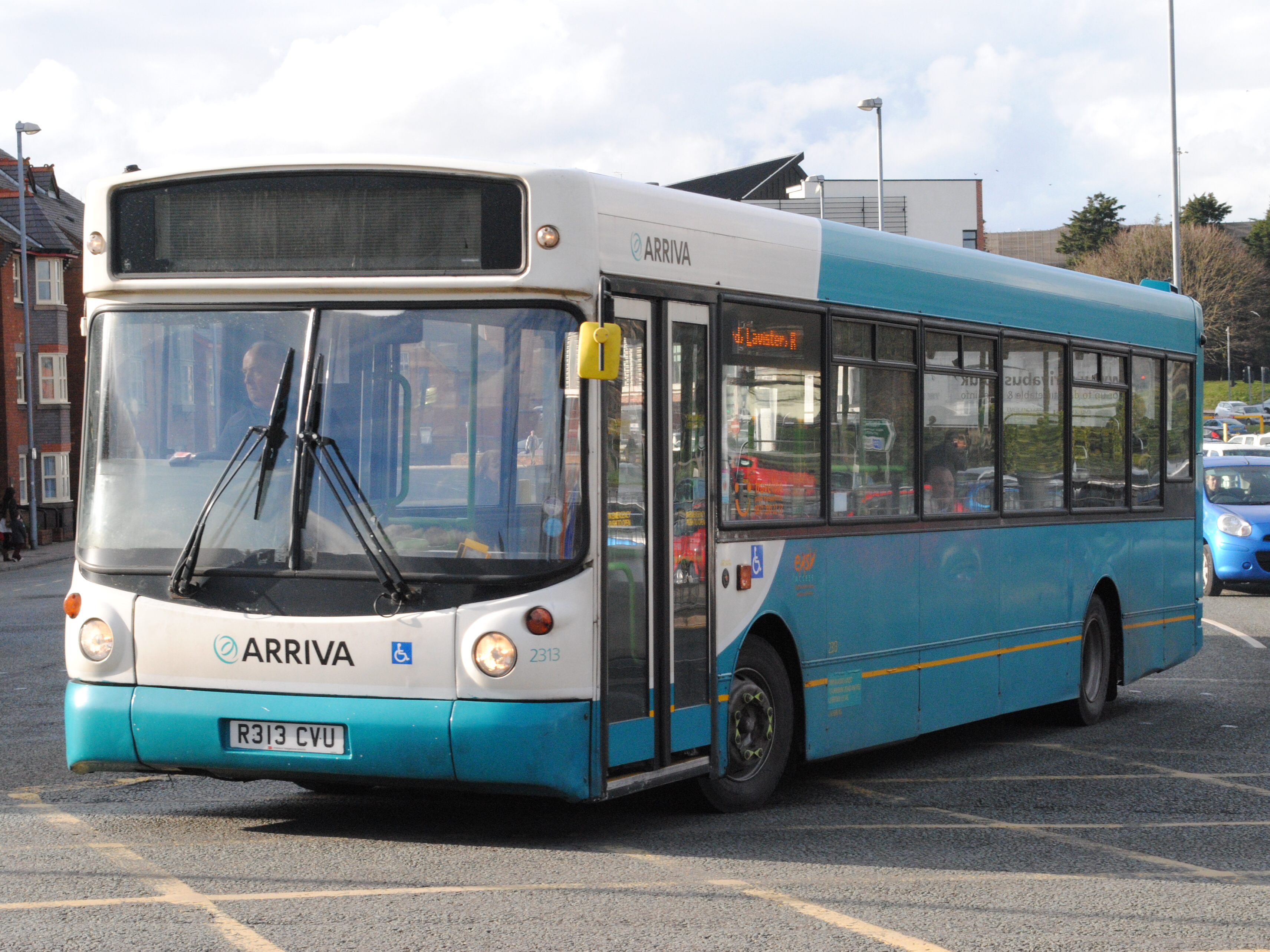 Alexander Dennis Dart 10.7m ALX200. new to Arriva North West 1313